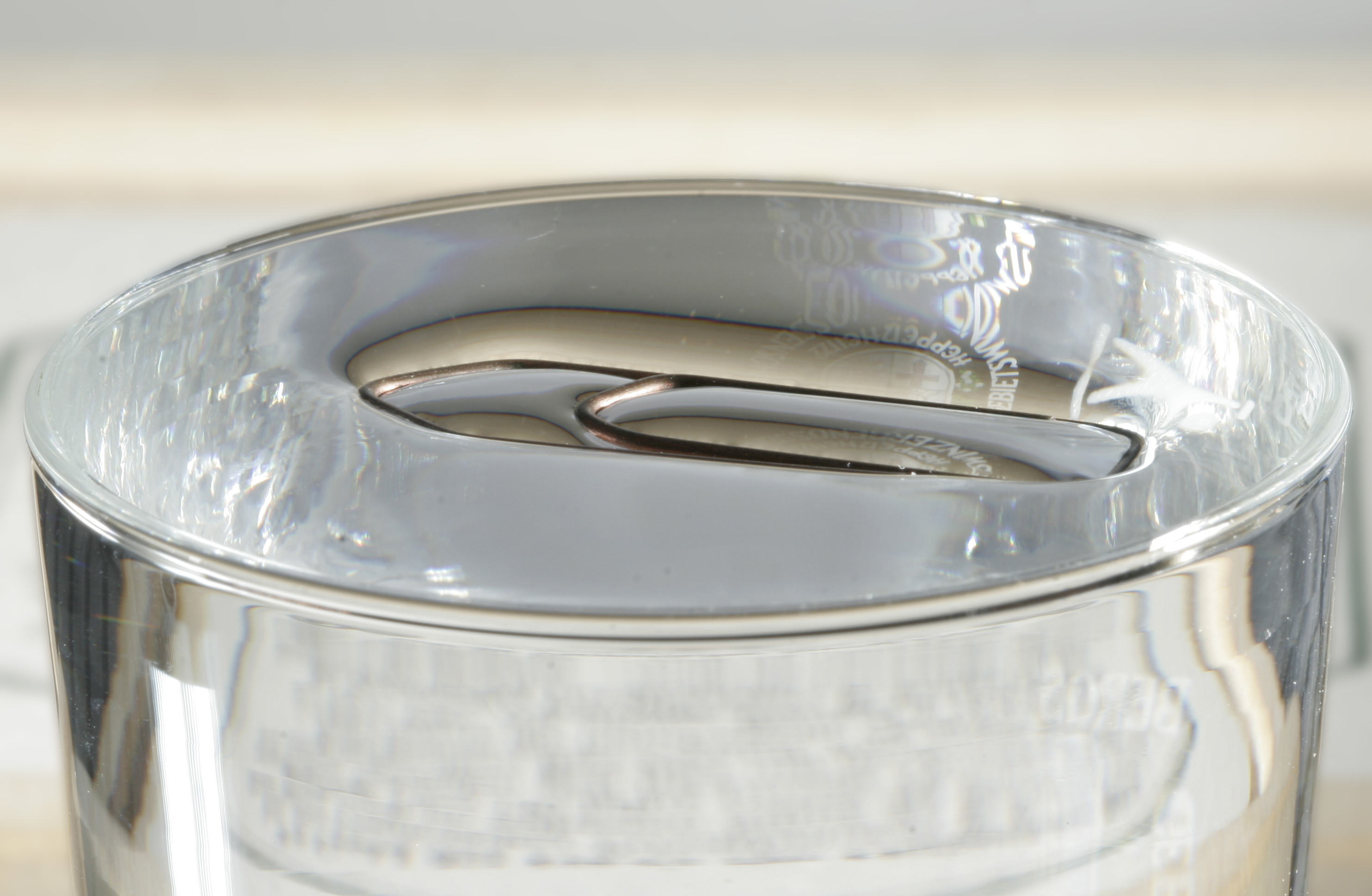 Floating paper clip made of steel with copper plating. The high surface tension helps the paper clip - with much higher density - float on the water